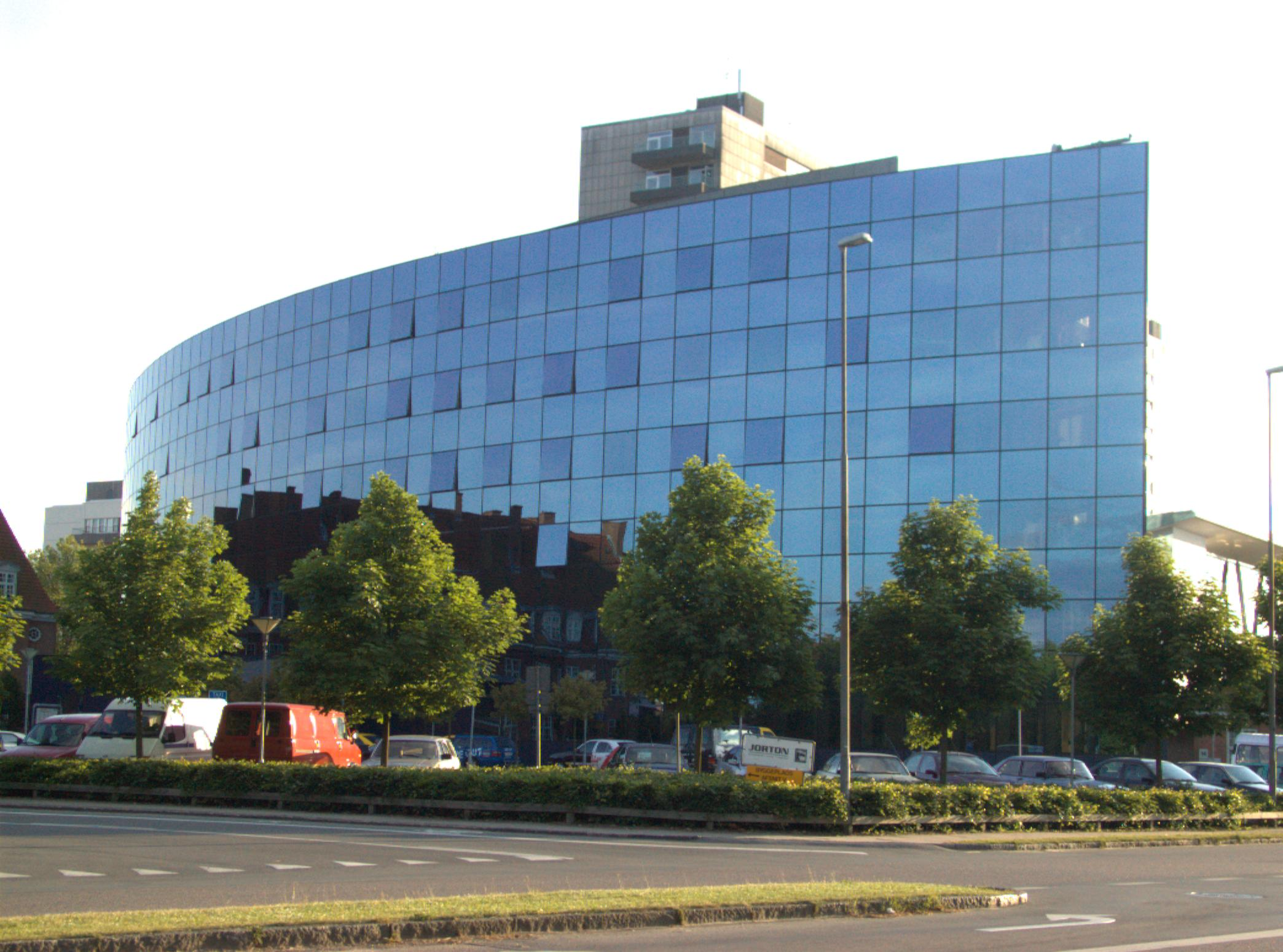 Odense University Hospital's patient hotel. (May 2010: Another storey is being added to the building; I'll update the picture once the construction is finished.)